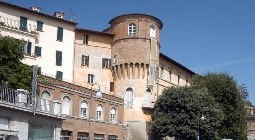 Palazzo della Penna